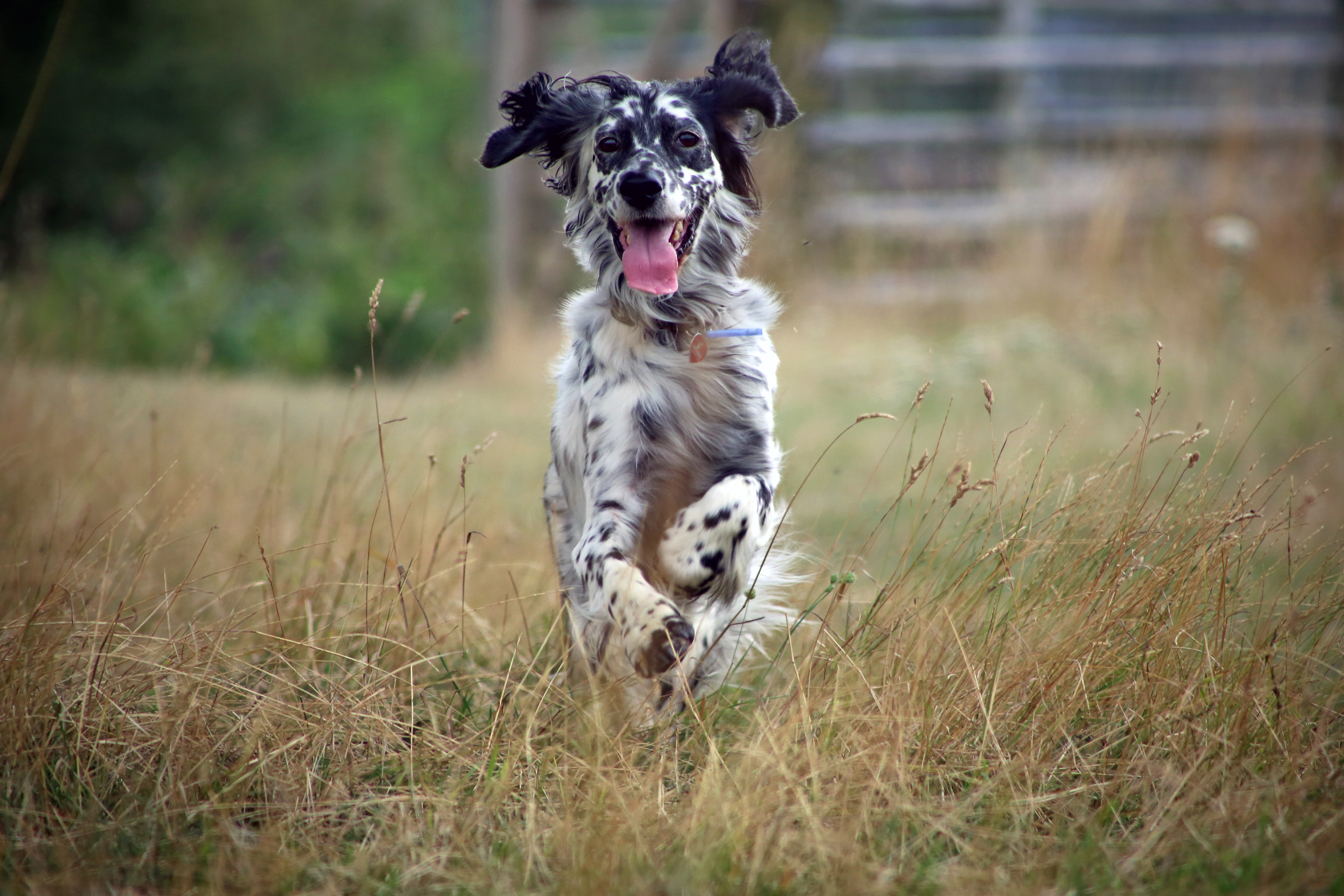 An English Setter dog runs through long grass in Awalton, Cambridgeshire, England.